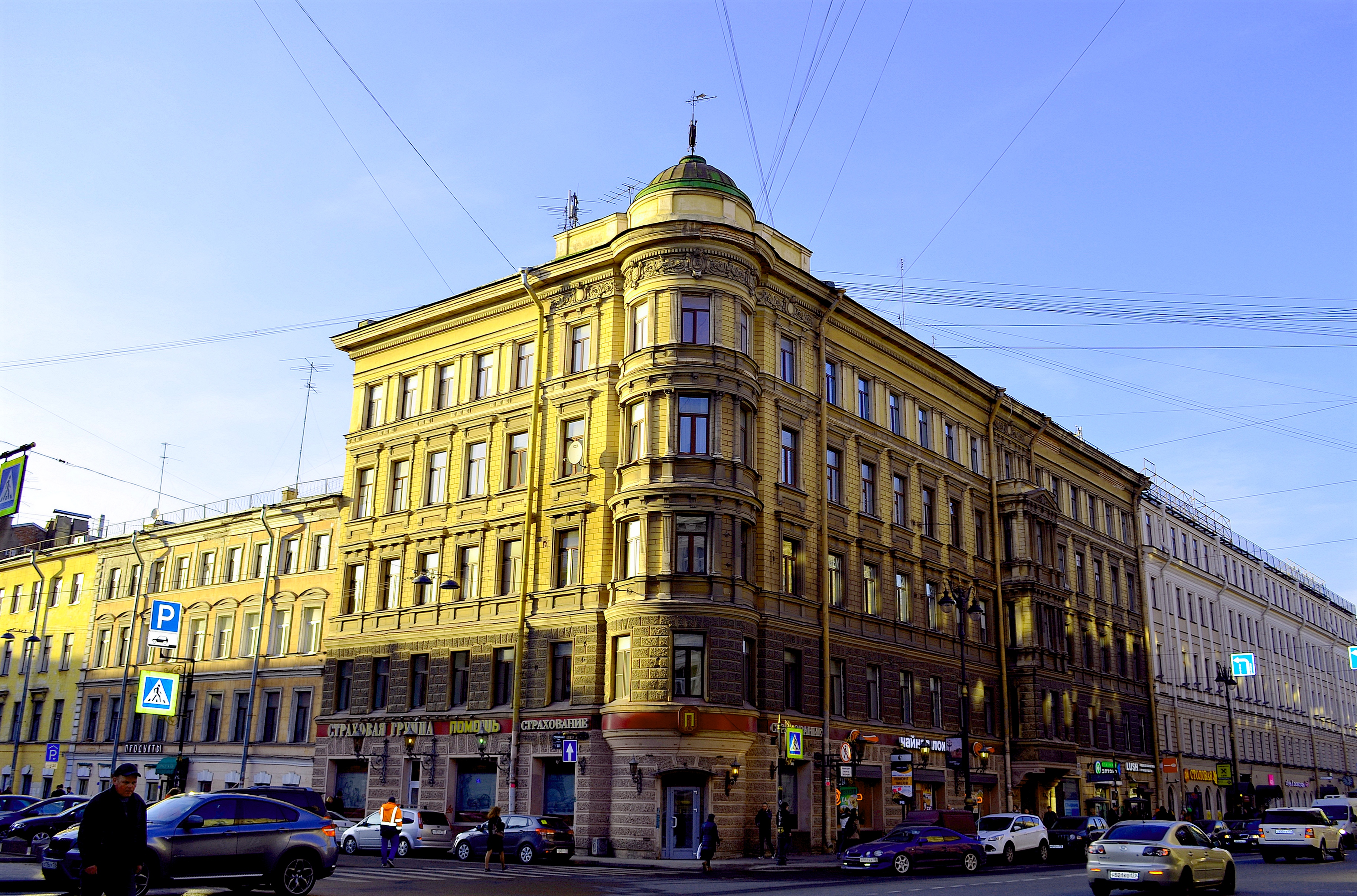 Profitable House of S.F. More, 1881-1882 (architect A.R. Geshvend): Marata Street, 3 / Stremyannaya Street, 22. Tsentralny District, St. Petersburg.